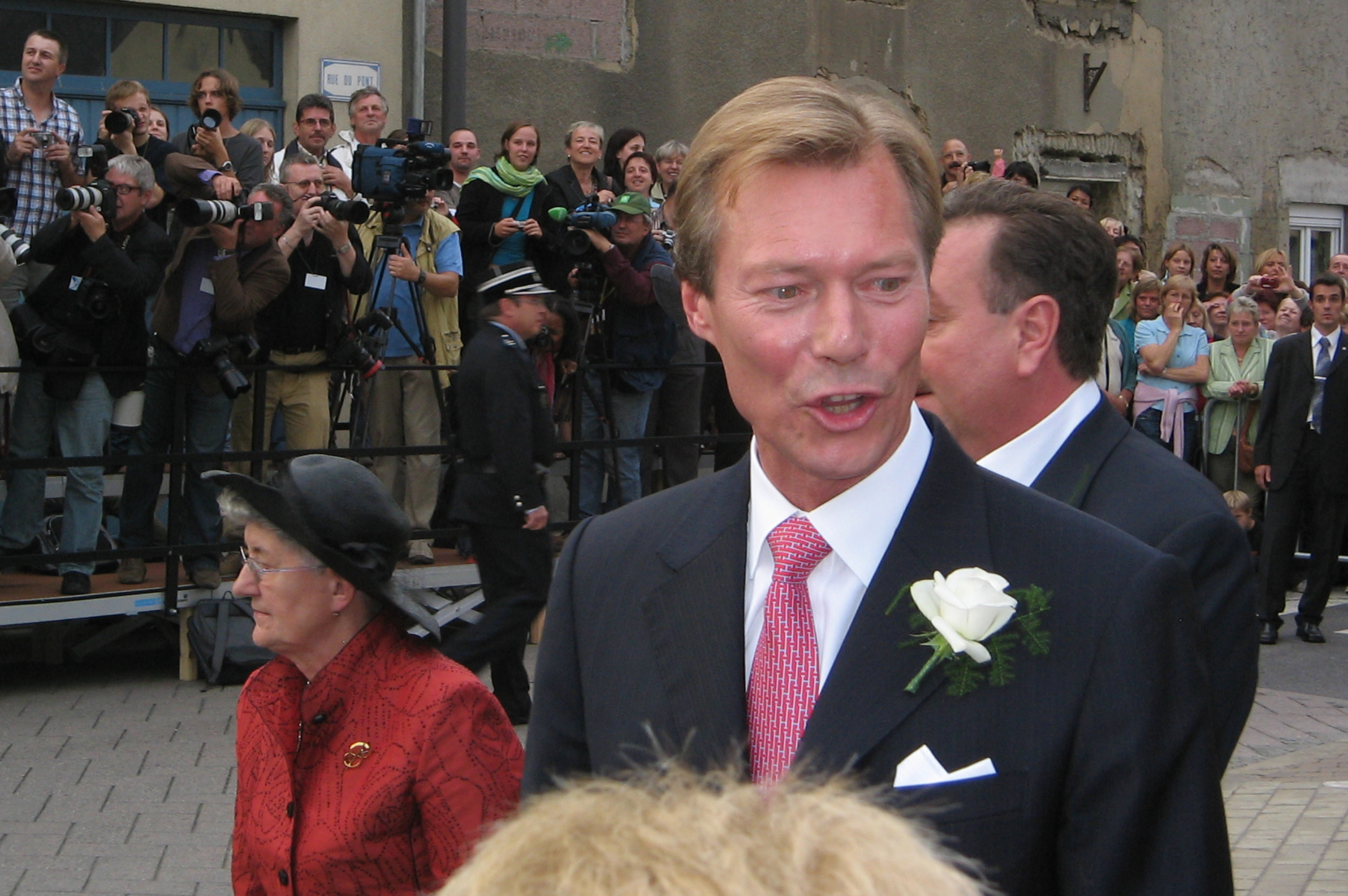 Grand Duc Henri on September 29th 2006 in Gilsdorf at the wedding of his son Prince Louis.